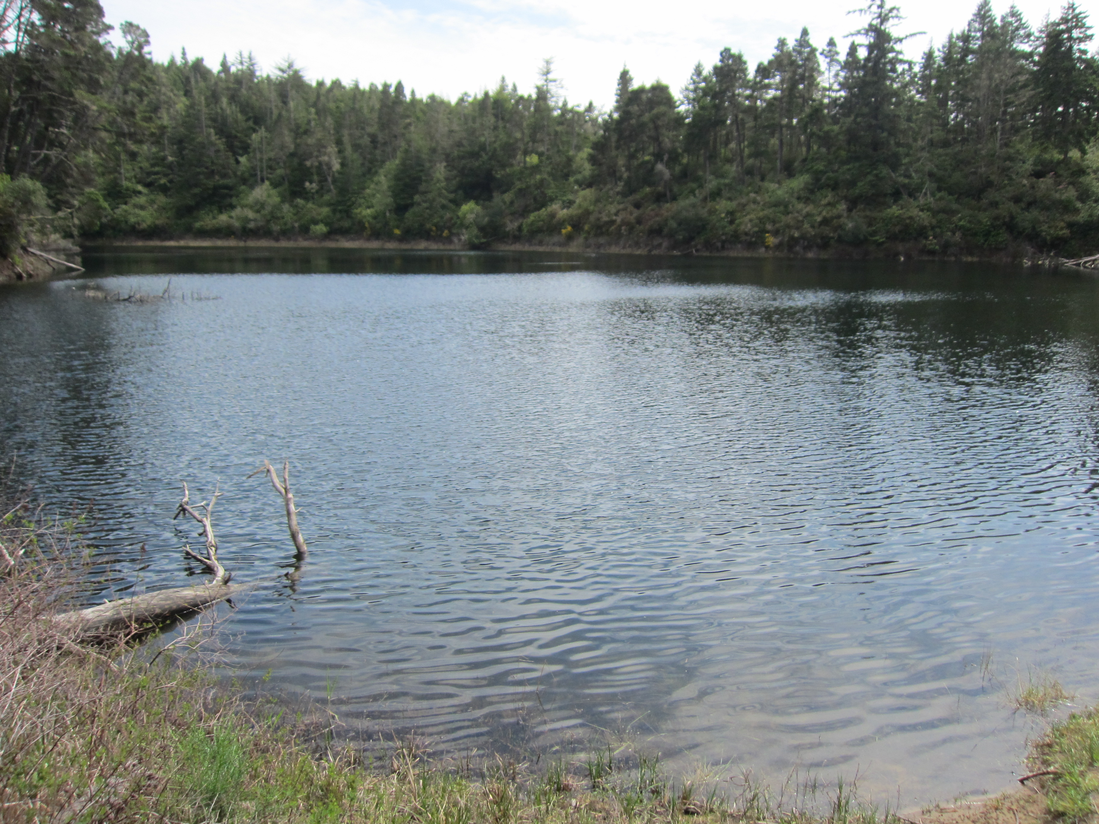 A picture of Perkins Lake, Oregon